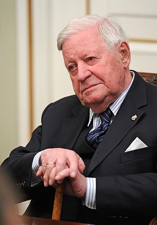 Bundeskanzler Helmut Schmidt. Moscow, Kremlin. 11 dec 2013.